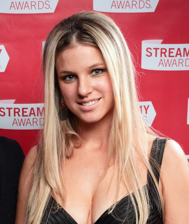 Lisa Nova